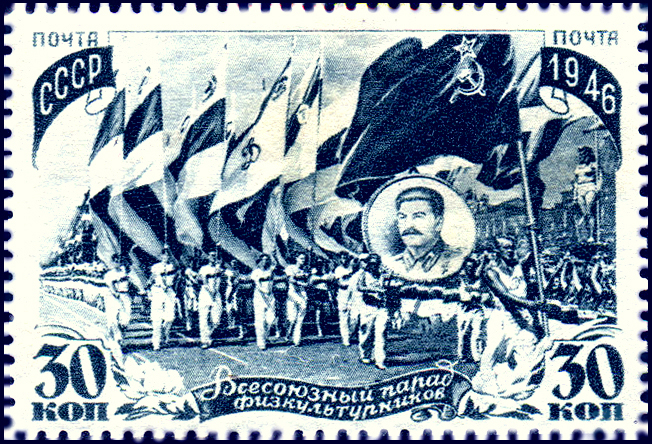 Stamp of the Soviet Union, 1946. All-Union athlete parade in Moscow.